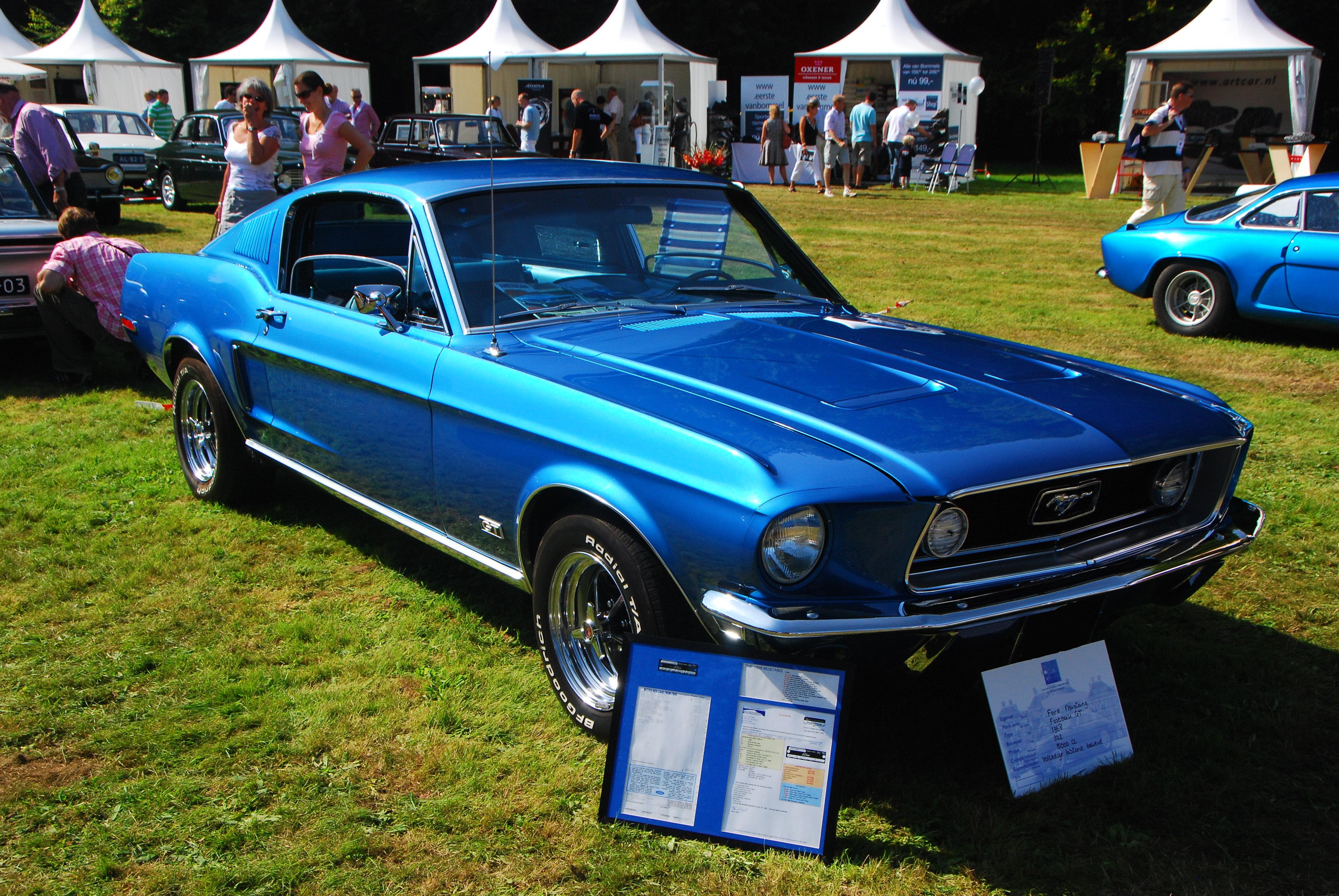 1968 Ford Mustang seen during Concours d'Elegance 2008, Apeldoorn (NL)